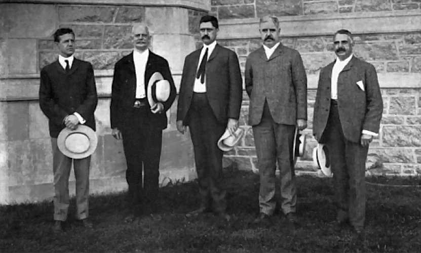 The 1904 Olympic Committee of the USA